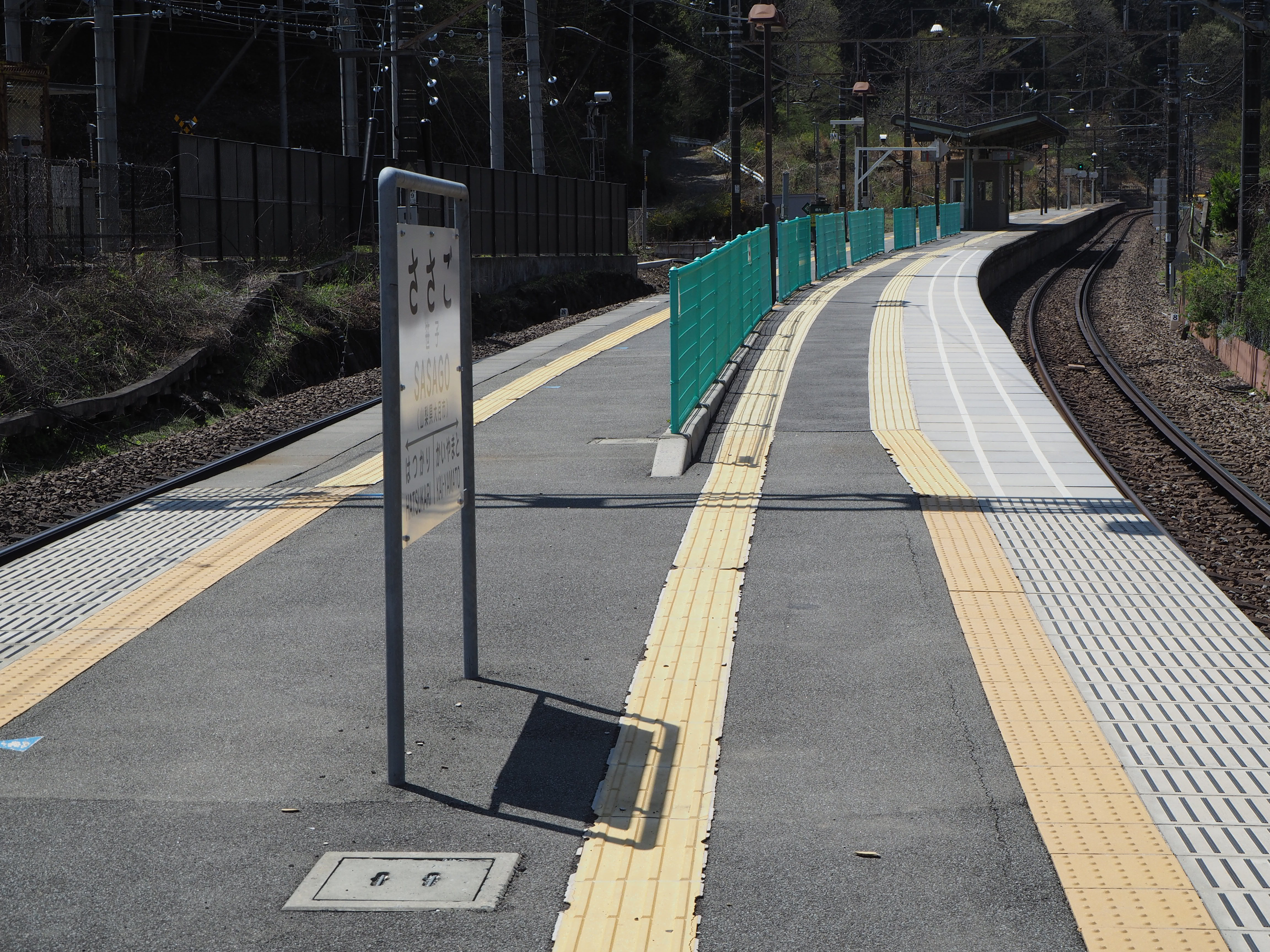 Platforms of Sasago Station